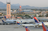 TIA Ramp